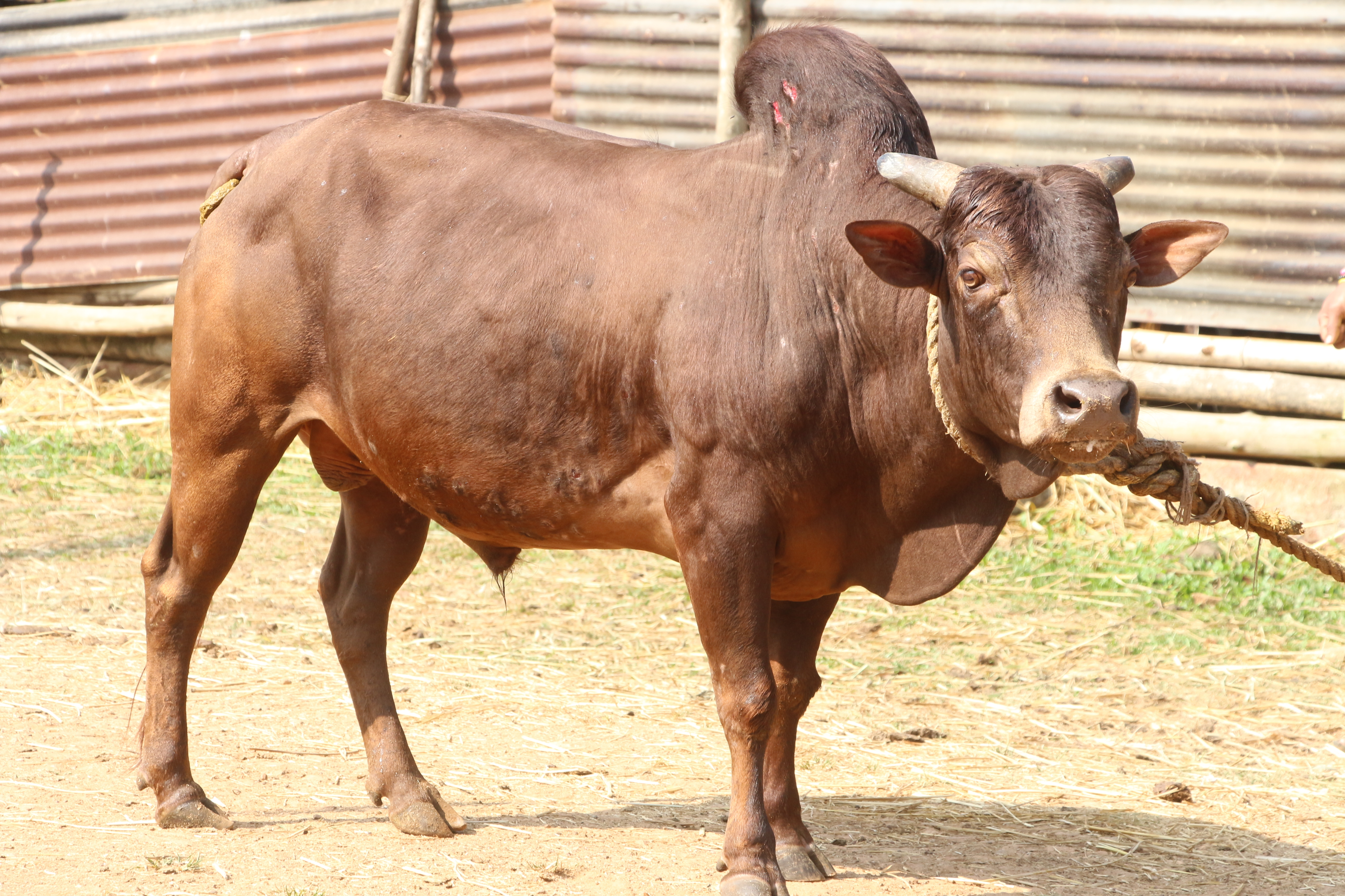 Indian cow breed Malenadu Gidda ಕನ್ನಡ: ಭಾರತೀಯ ಗೋತಳಿ ಮಲೆನಾಡು ಗಿಡ್ಡ